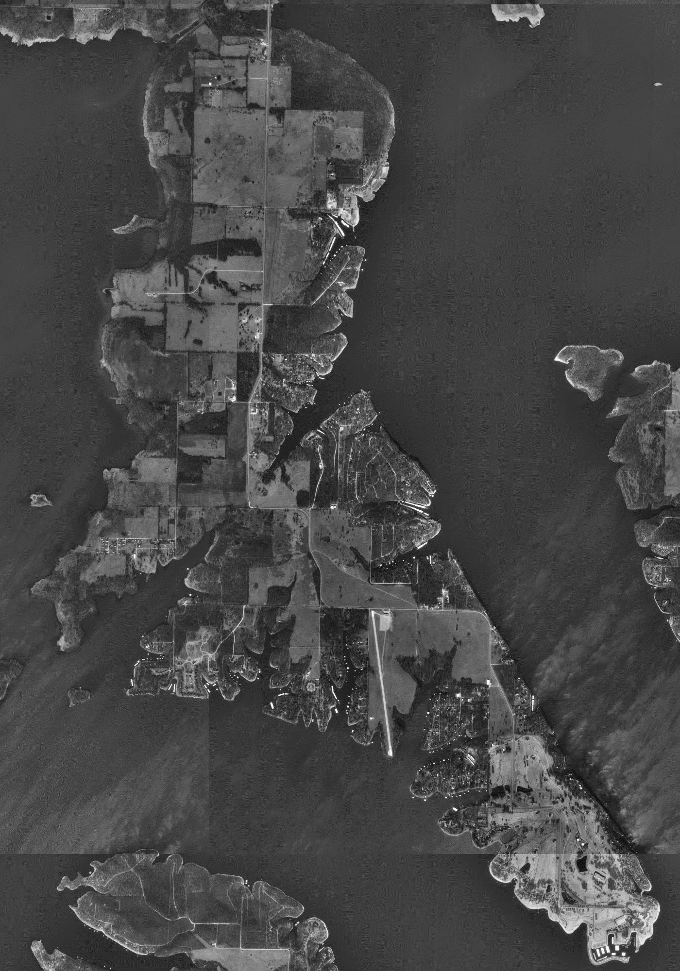 USGS digital orthophoto of Monkey Island, a peninsula on Grand Lake o' the Cherokees, in Delaware County, Oklahoma, United States